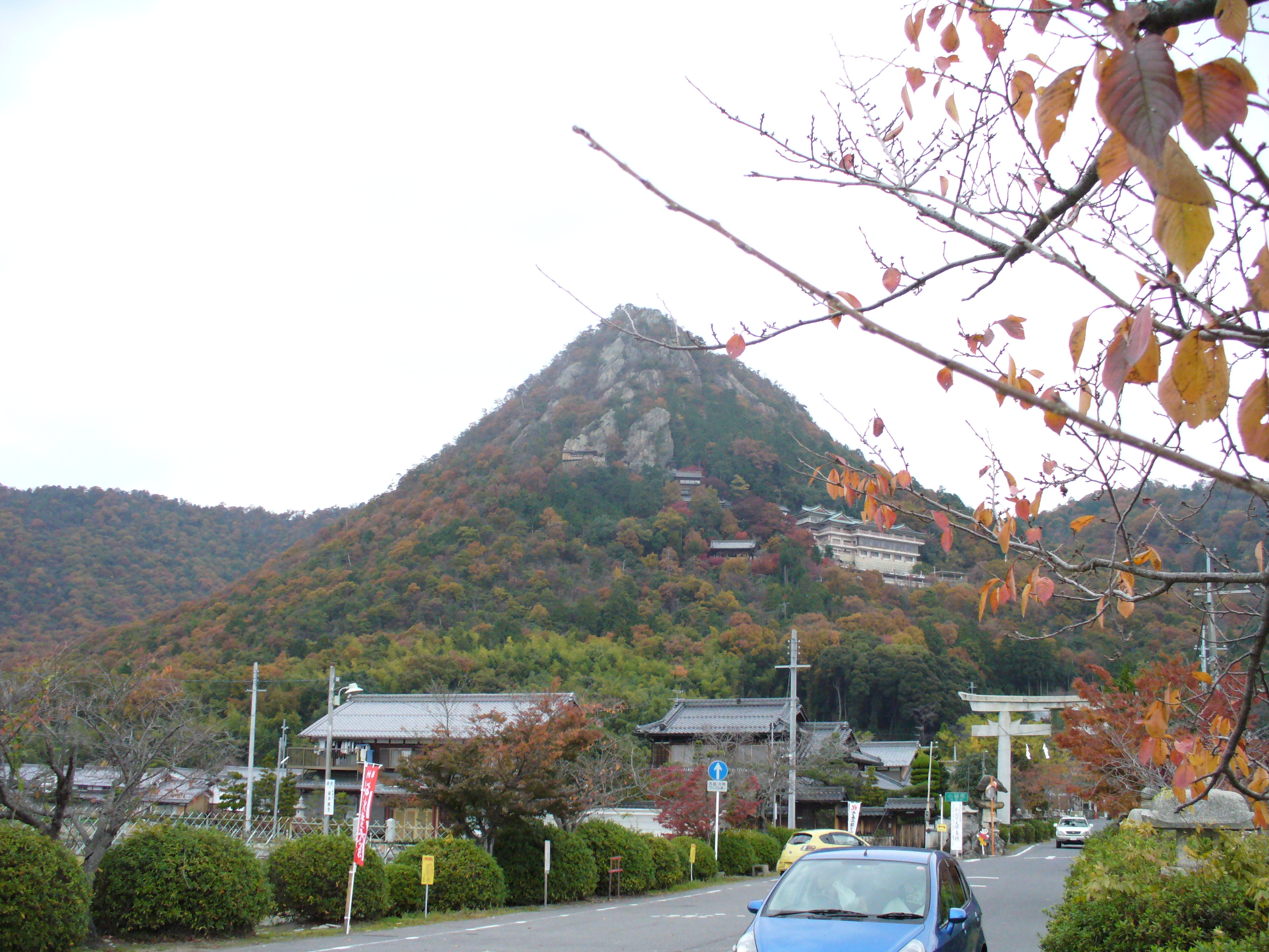 Photograph of Akagamiyama（赤神山 or 太郎坊山）, taken in Higashioumi city, Shiga, Japan.